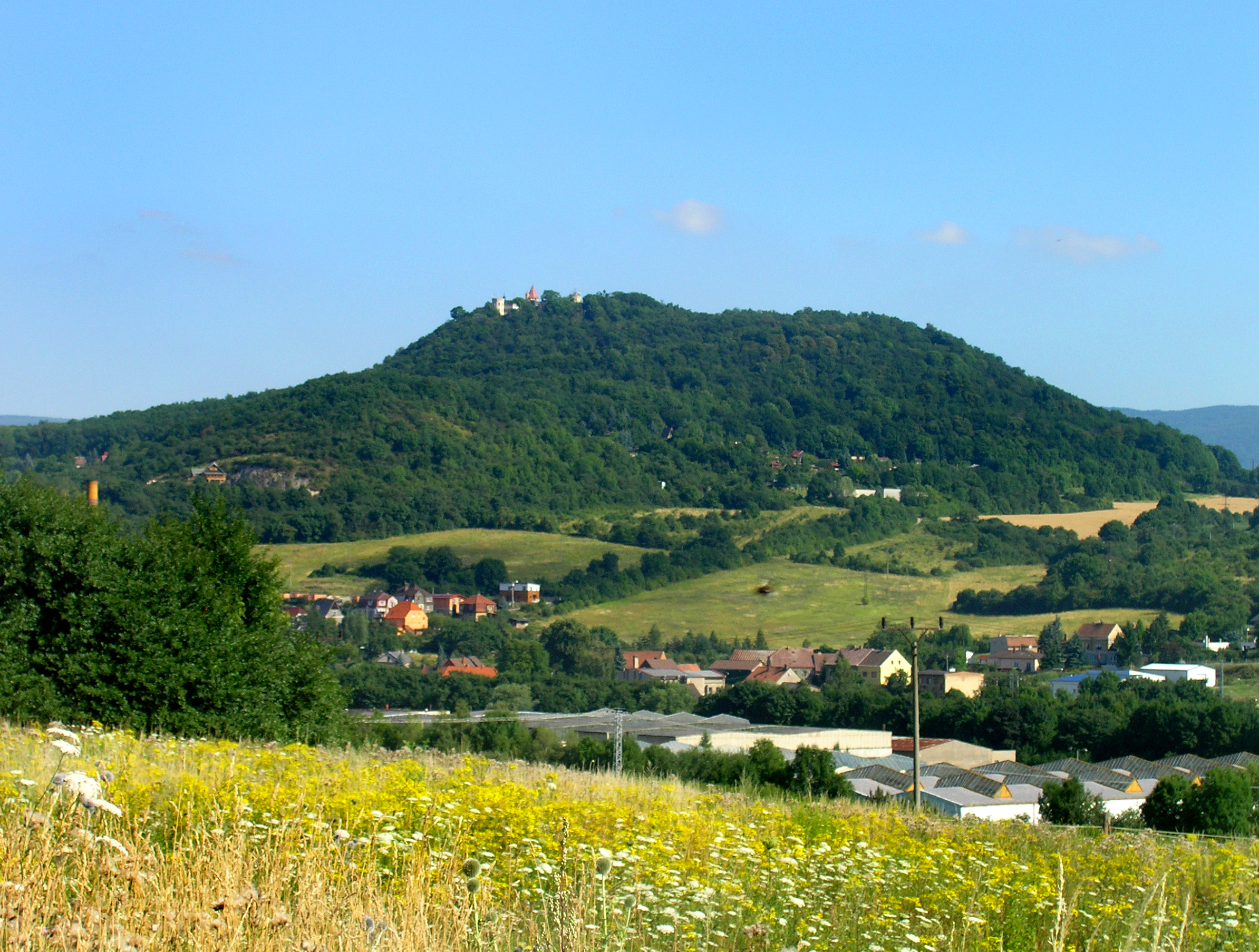 Doubravská hill south of Teplice, Czech Republic